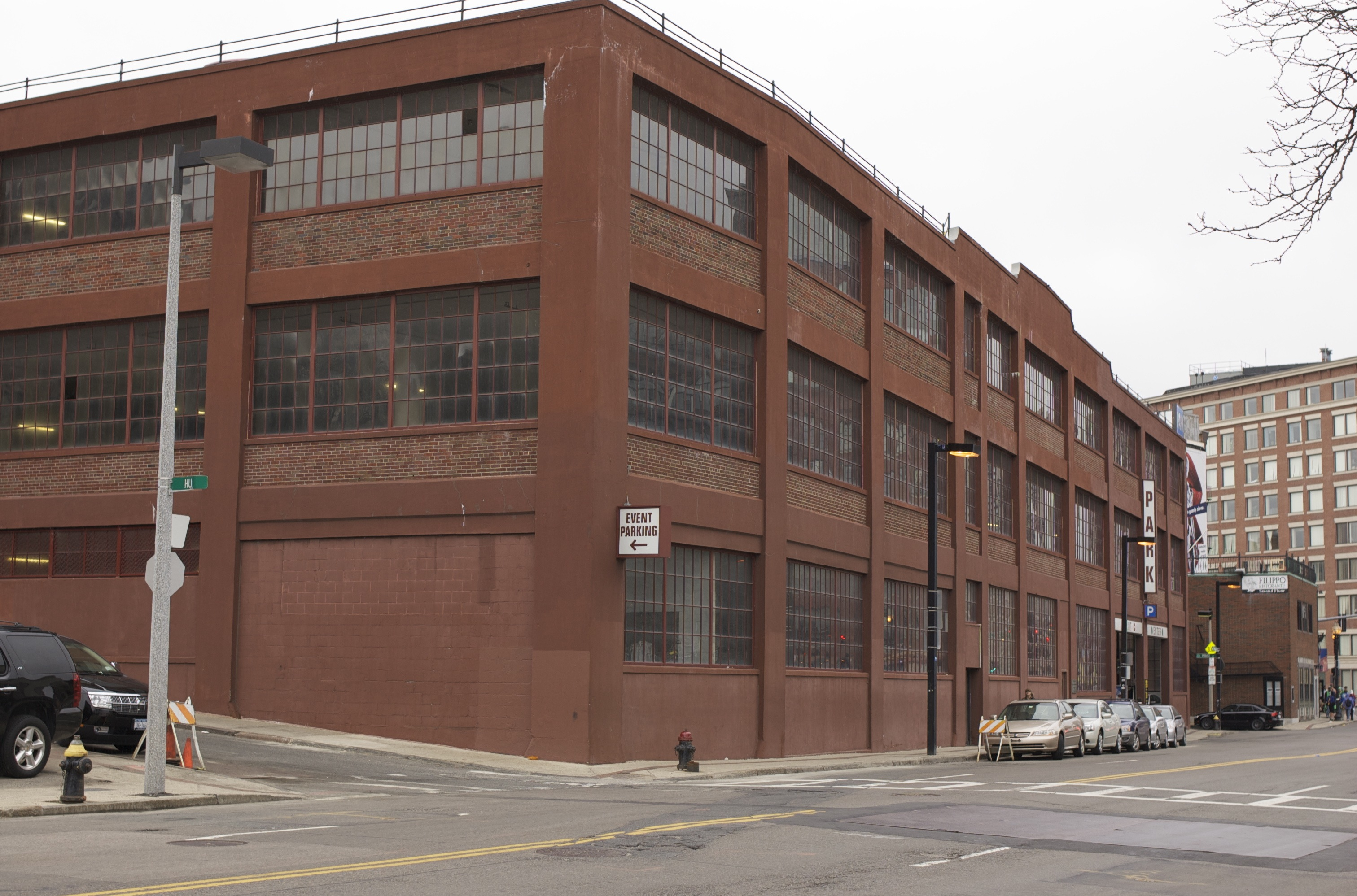 The North Terminal Garage at 600 Commercial Street in Boston, Massachusetts.